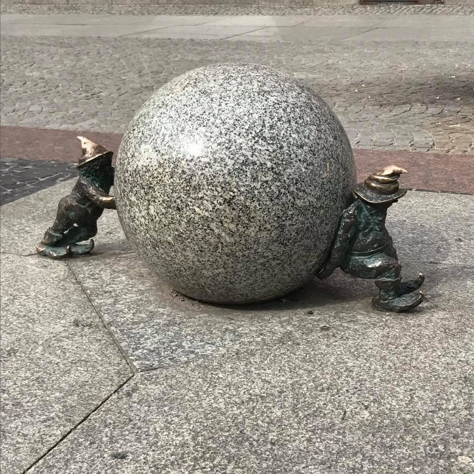 JPEG photo file.